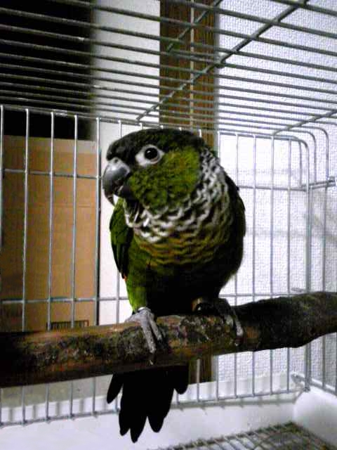 Black-capped Parakeet (also known as the Rock Parakeet, the Black-capped Conure, and Rock Conure) in a cage.